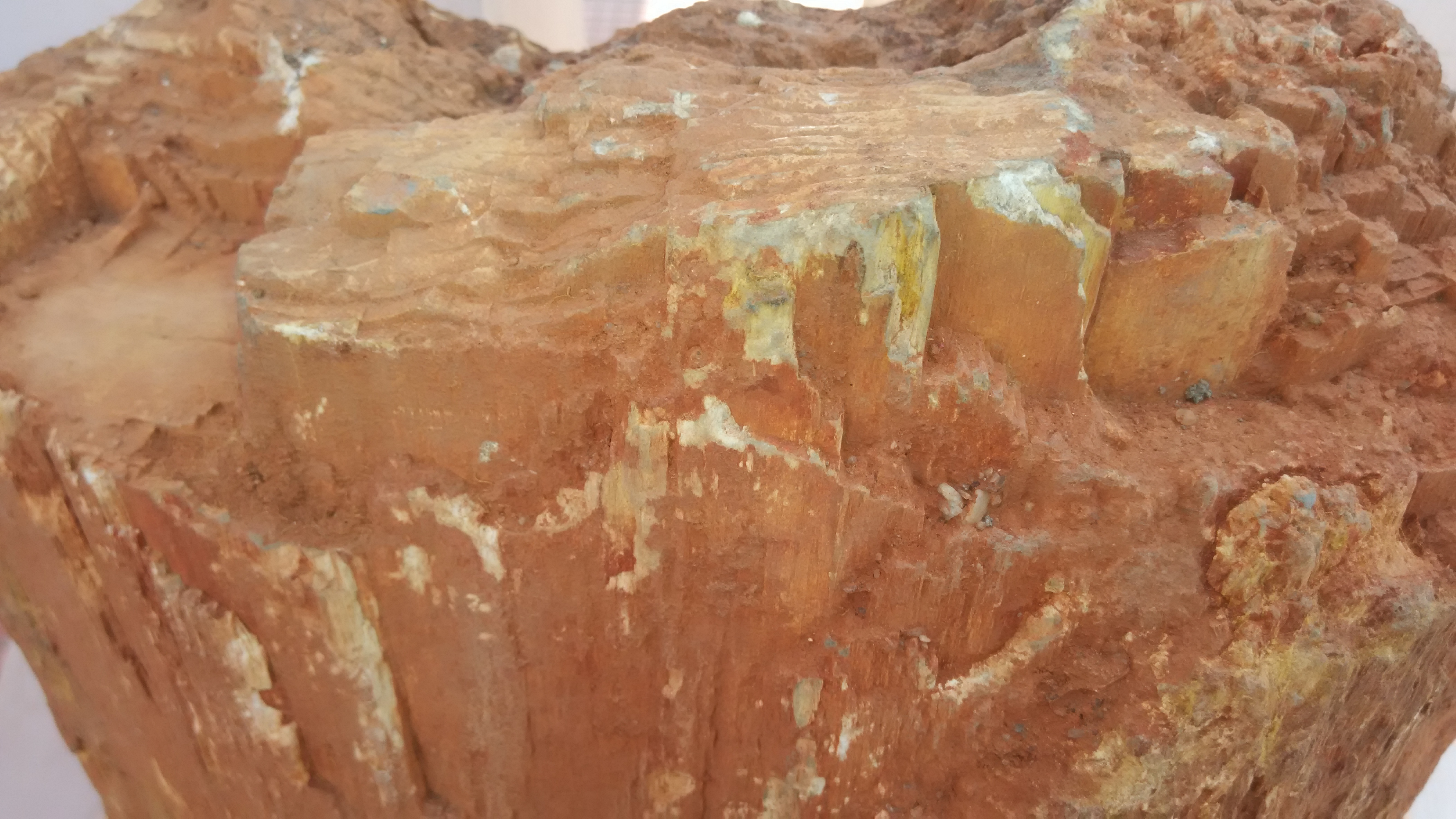 Wood Fossil, Age: Mio-Pilocence (20 Million year old), Location: Thiruvakkarai, Villupuram District, Tamil Nadu.